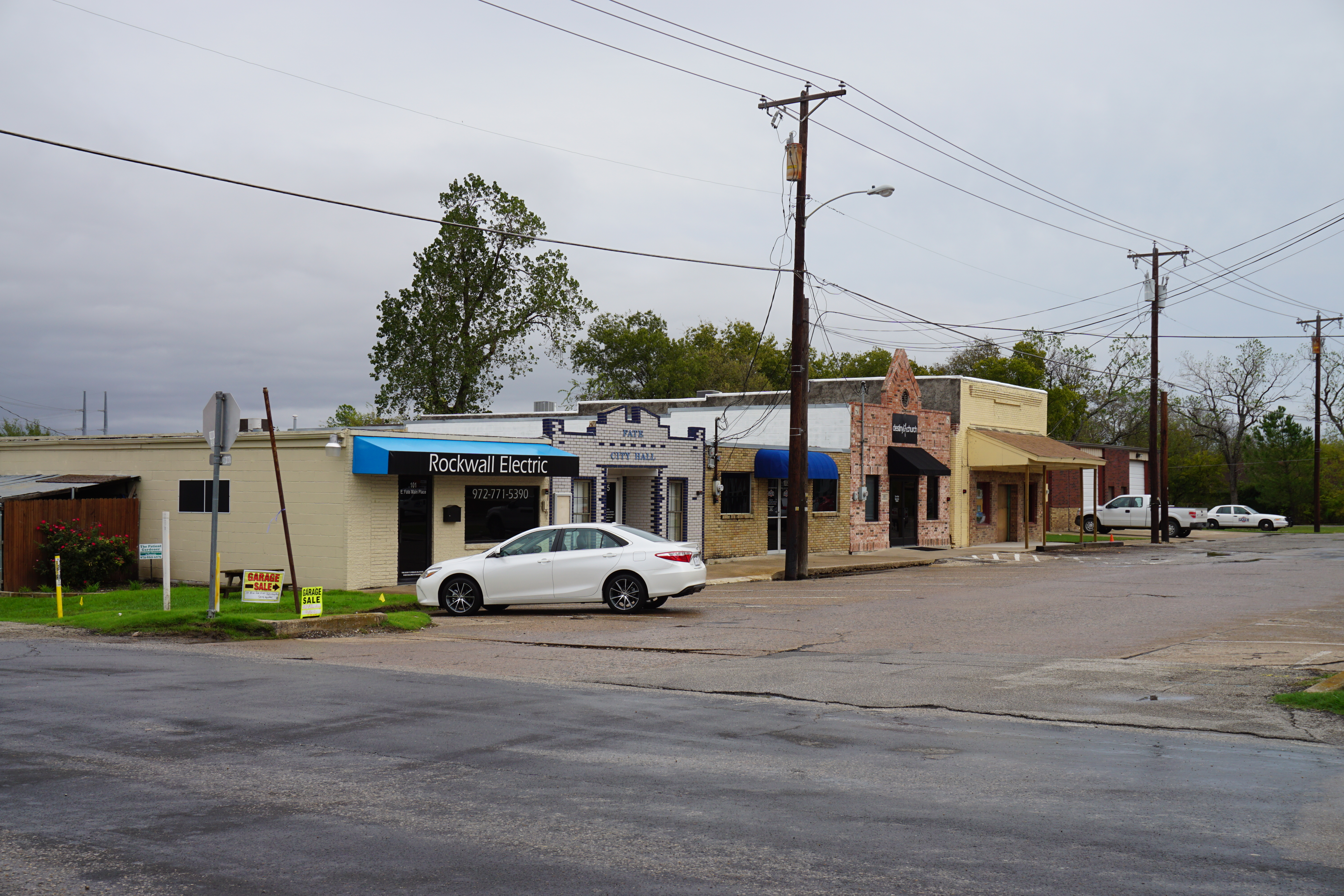 Fate Main Place in Fate, Texas (United States).